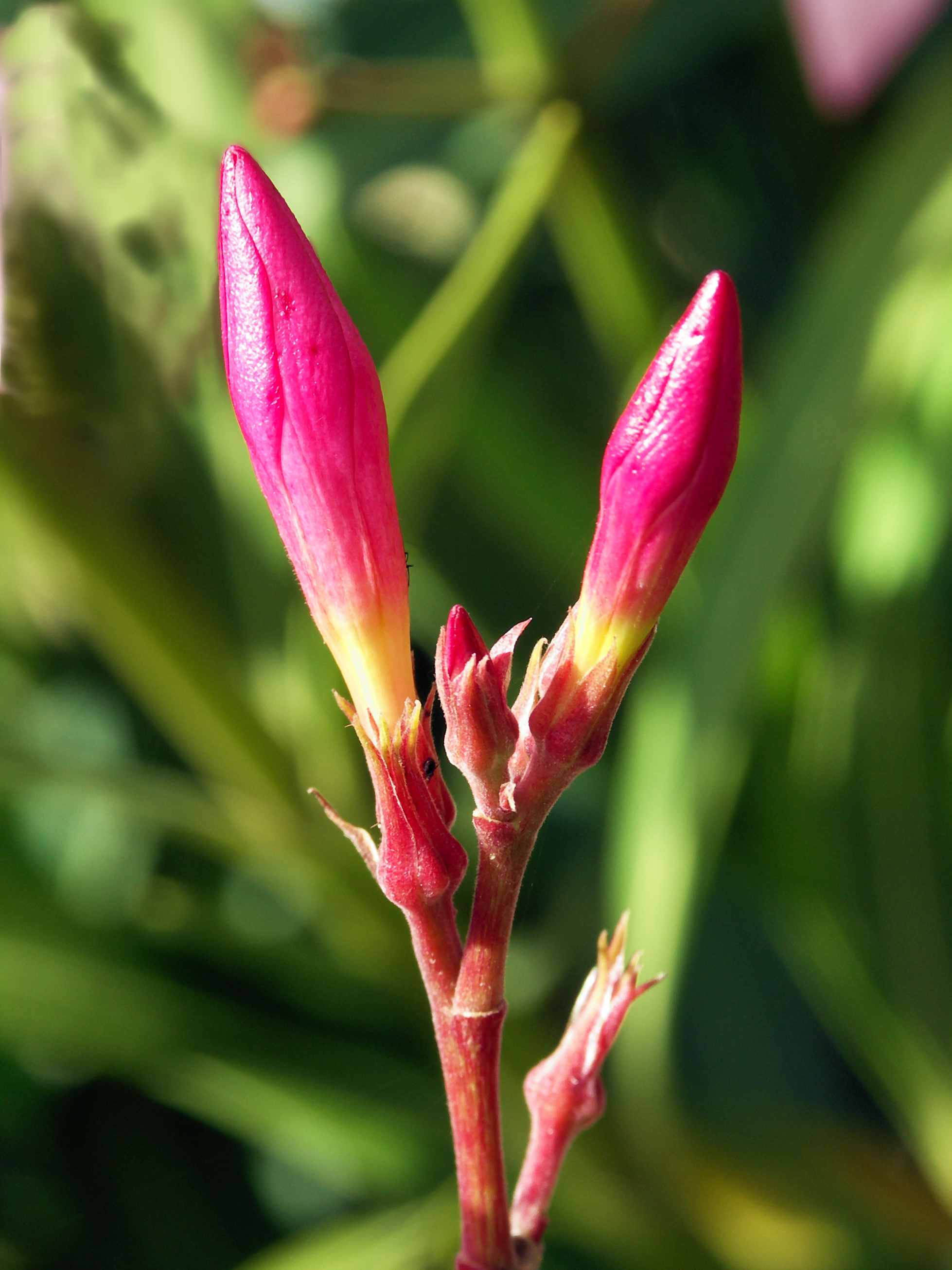 Buds of Nerium oleander. Lisboa, Portugal This is a retouched picture, which means that it has been digitally altered from its original version. Modifications: Blown highlight at the upper left removed by cloning.